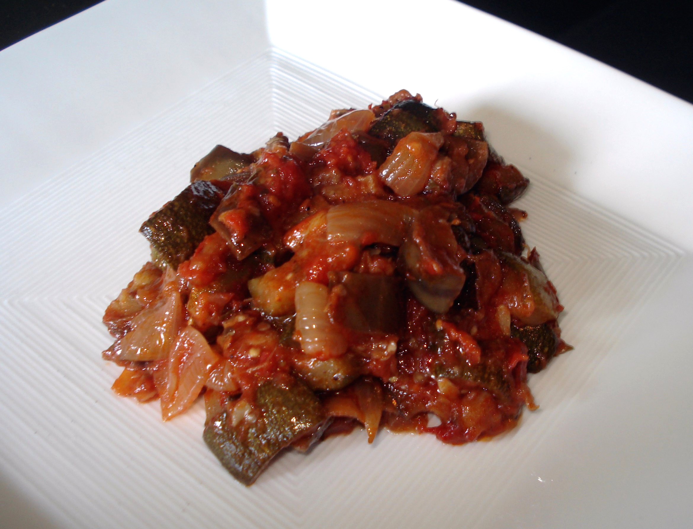 Ratatouille